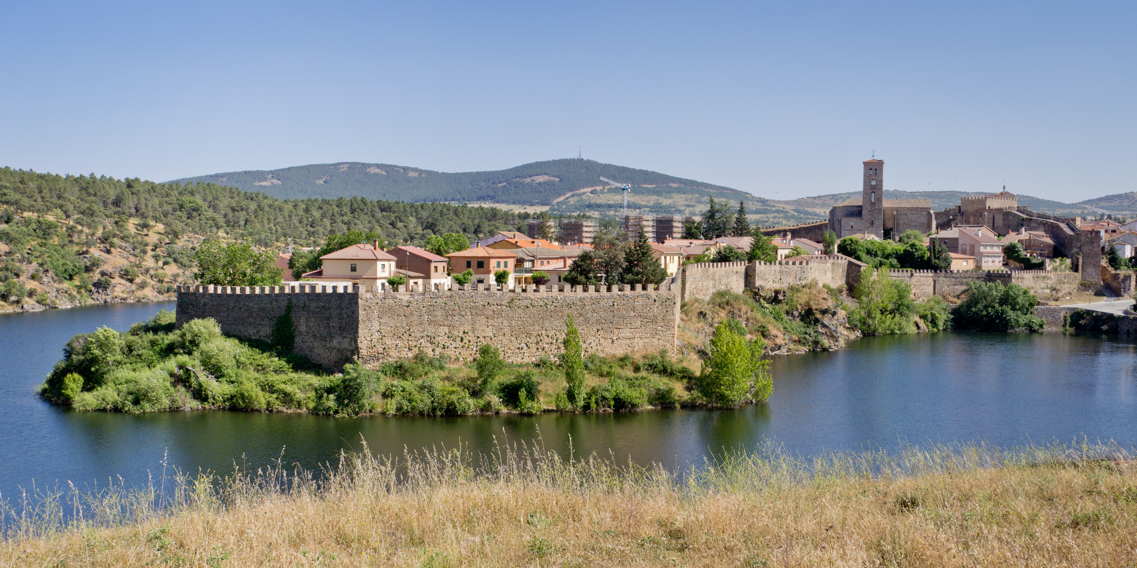 Buitrago del Lozoya, Community of Madrid, Spain.